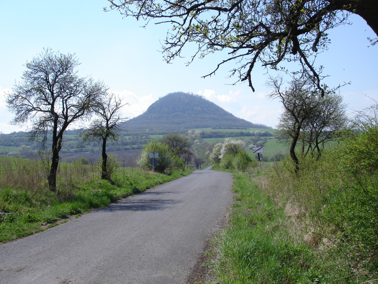 Milá in České středohoří, Czech Republic. A view from Bělušice